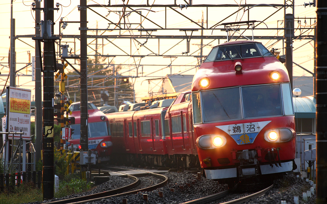 Meitetsu Panorama Car 7000 series EMU ( 7011F ) at Hitotsugi Sta.